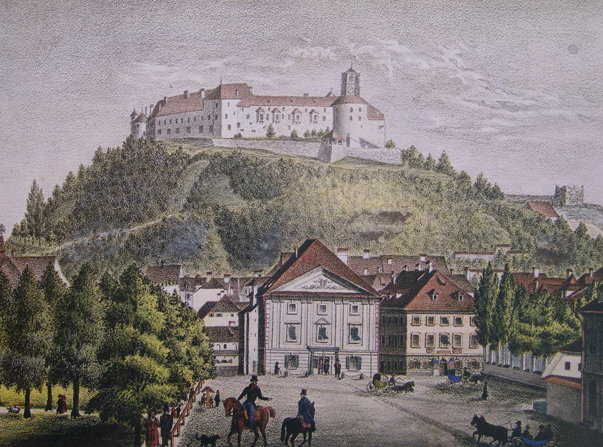 Estates Theatre